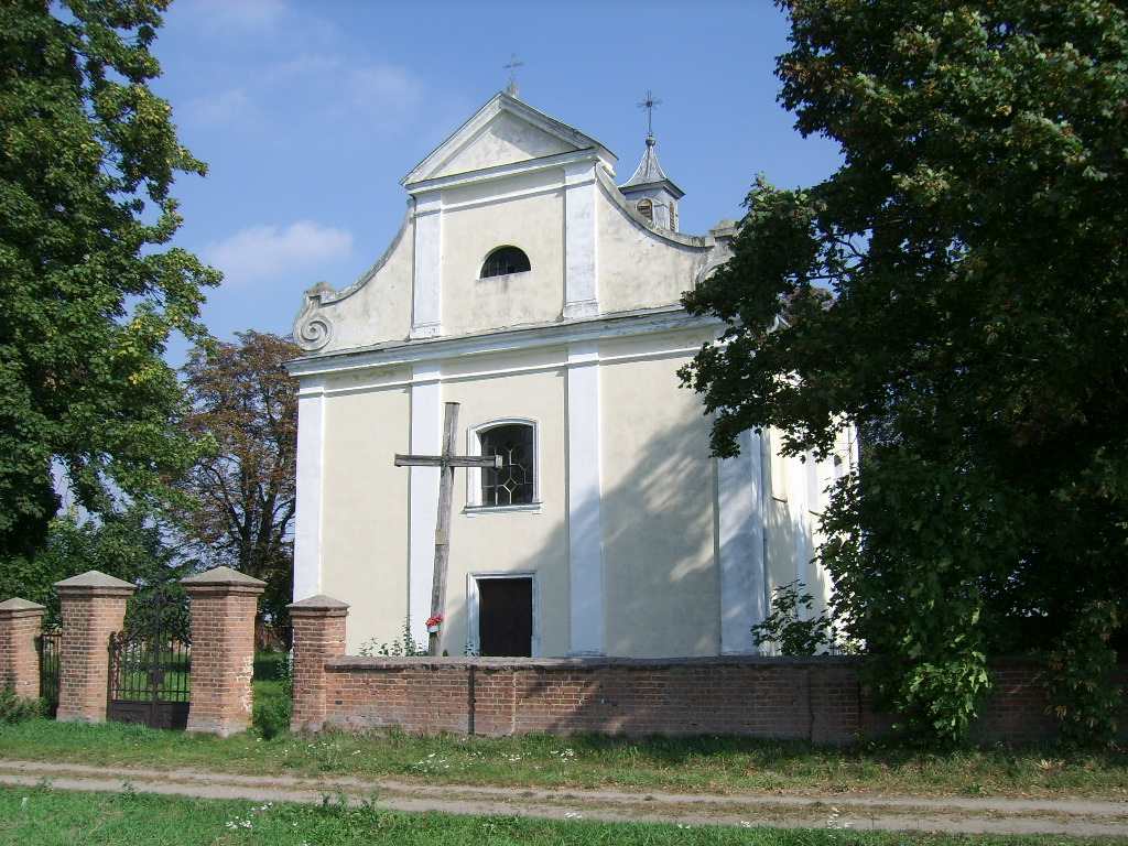 Saint Stanisław church in Żelechów, Poland